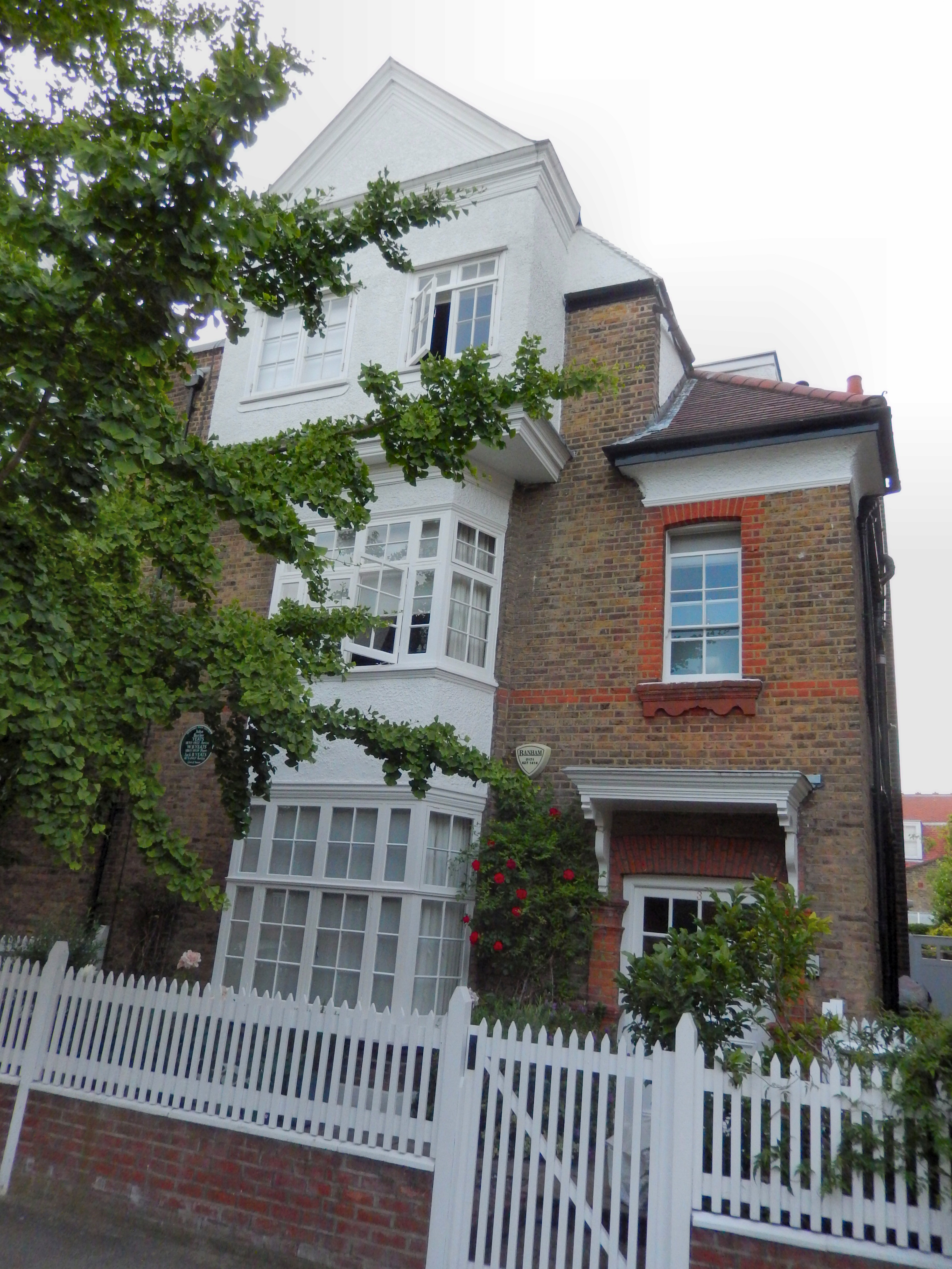 House of the Yeats family at 3 Blenheim Road London W4, with green plaque naming John Butler Yeats and William Butler Yeats.